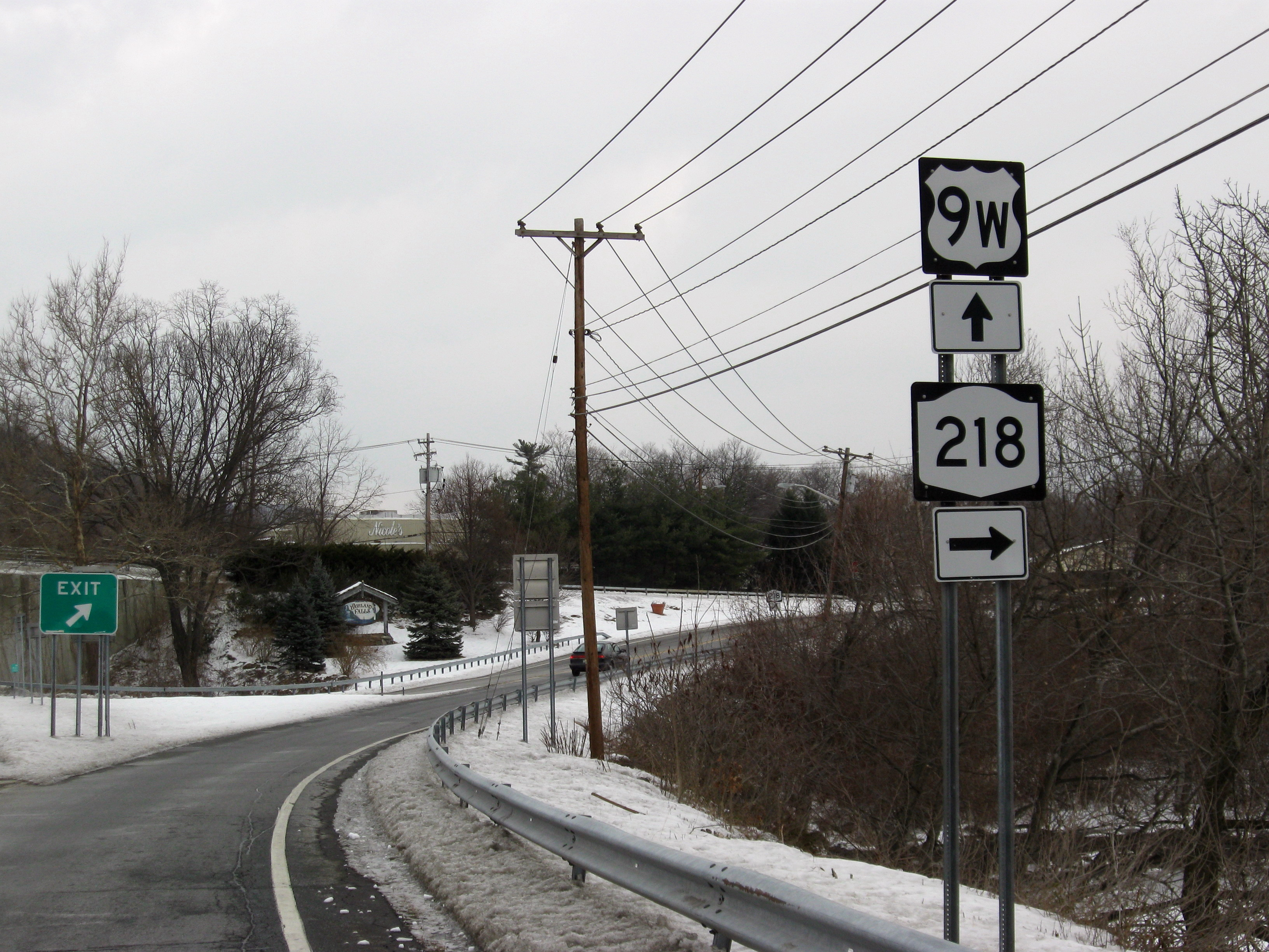 The southern terminus of New York State Route 218 at an interchange along U.S. Route 9W in Highland Falls, New York.